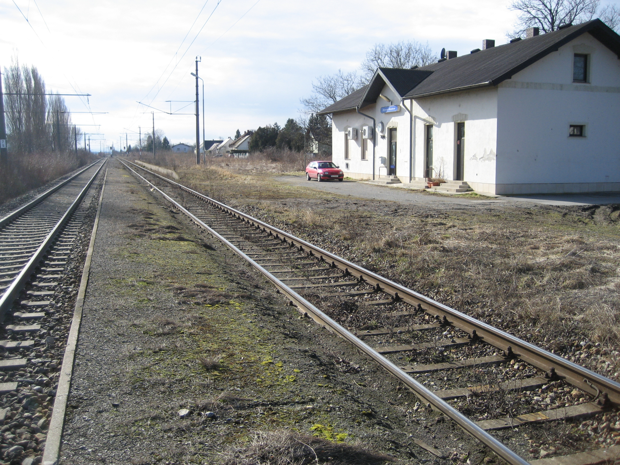 Mitterndorf-Moosbrunn train station in Lower Austria